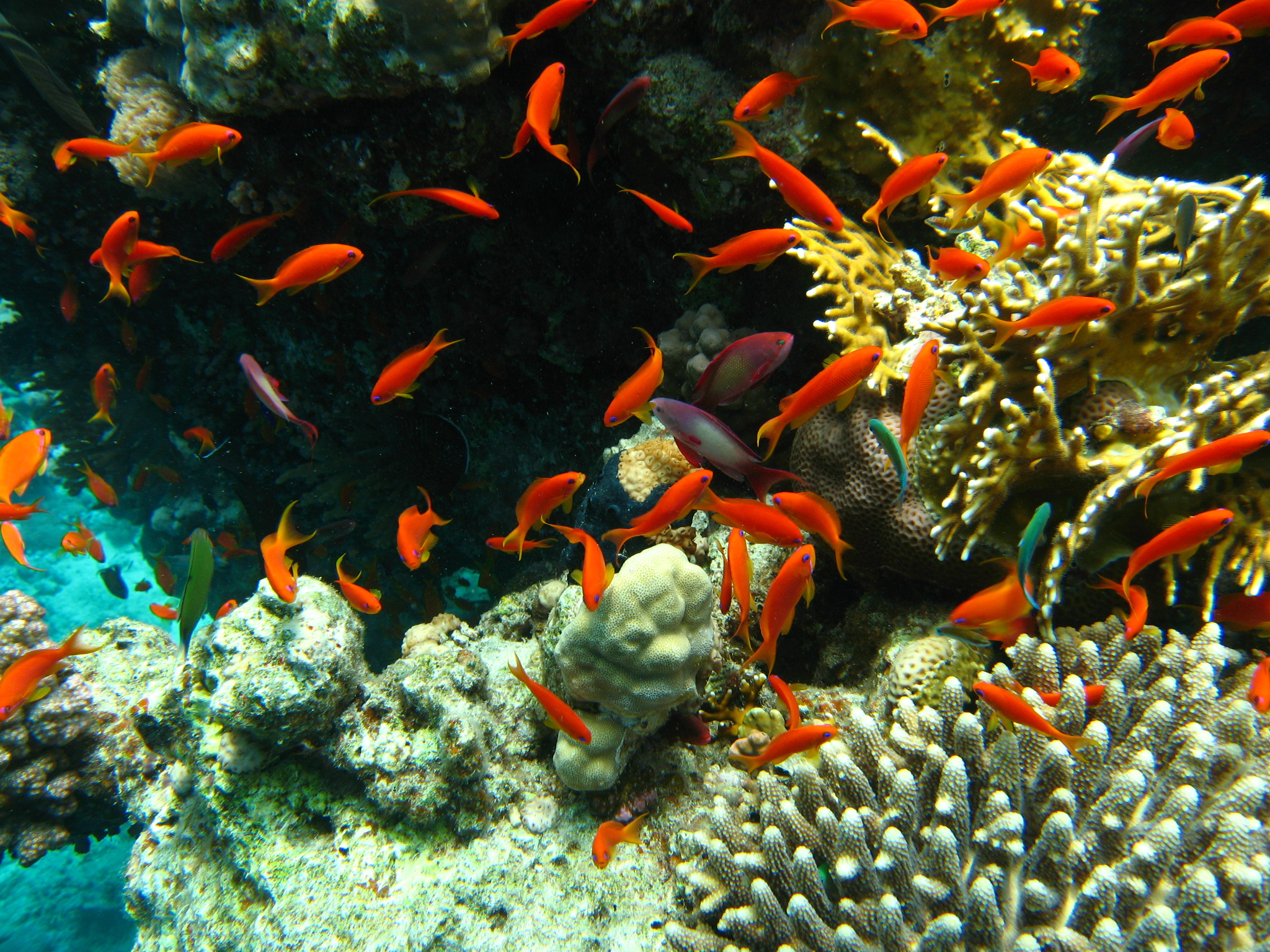 Port Ghalib Egypt